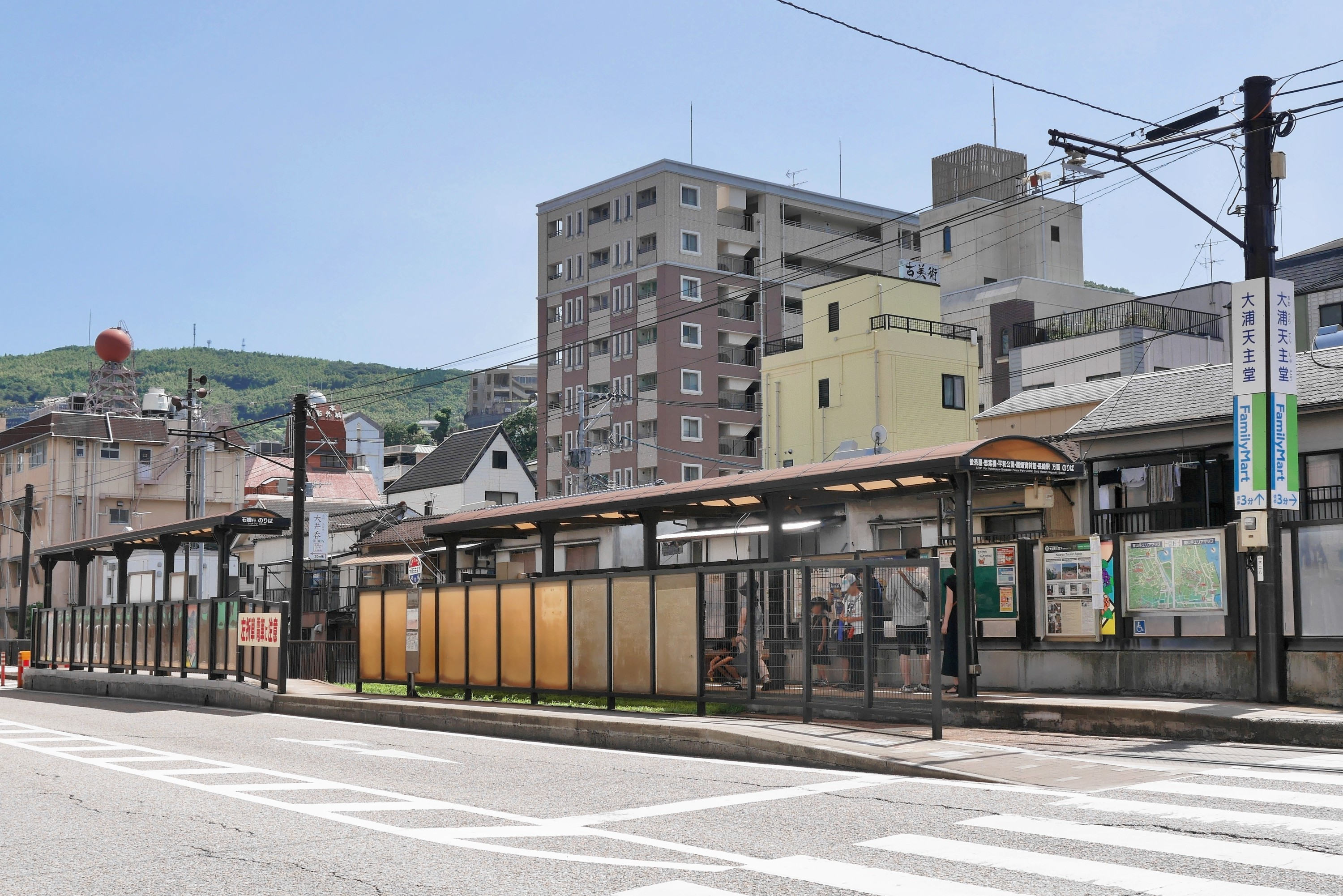 Oura Cathedral Tramstop.